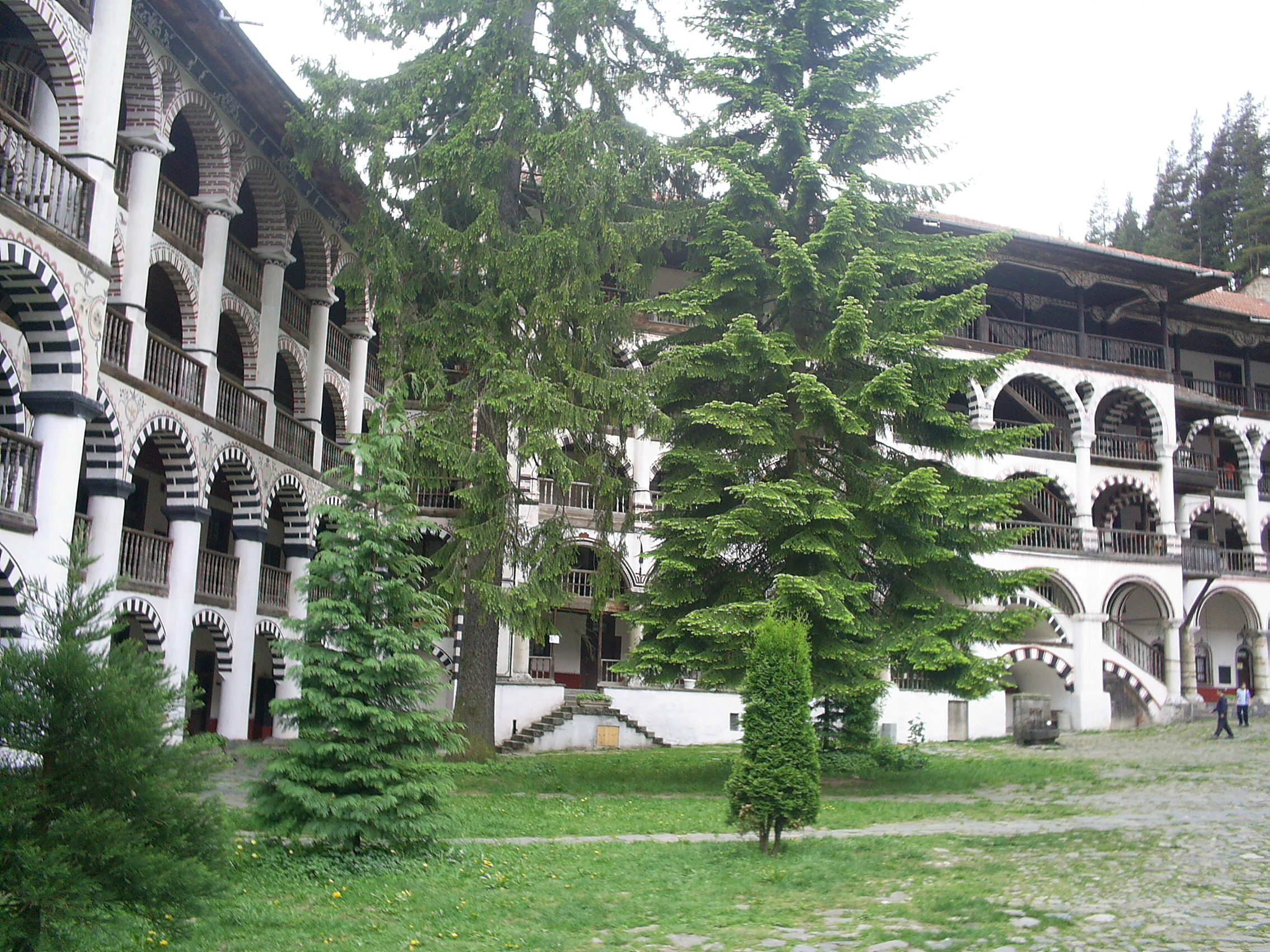 Rila monastery, view from the courtyard